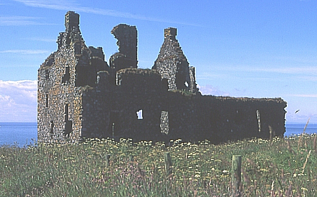 Dunskey Castle The clifftop castle was built in the early 16th century on the site of an older castle. However it had fallen into ruin by the end of the 17th century.